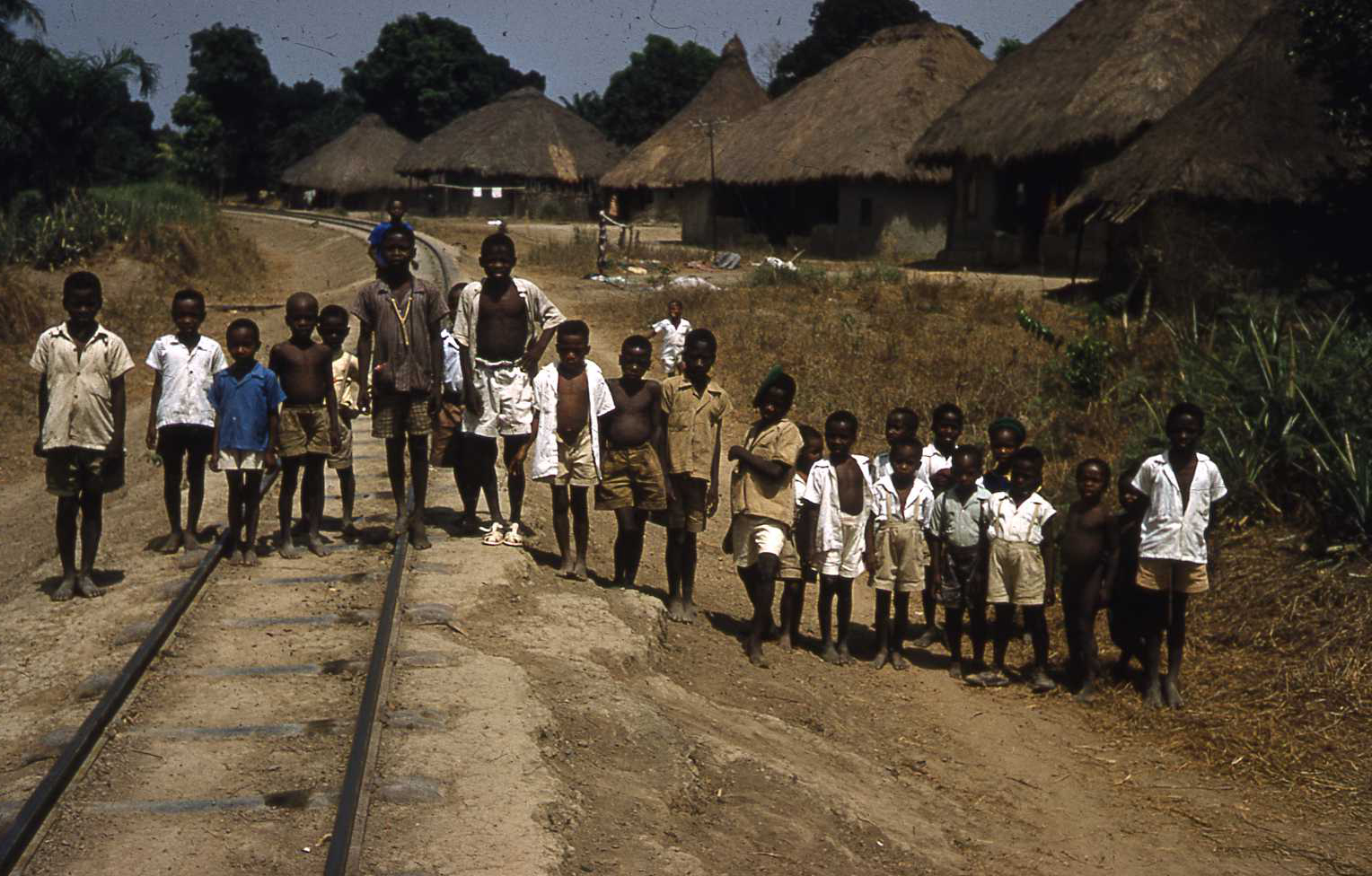 Railways in Sierra Leone